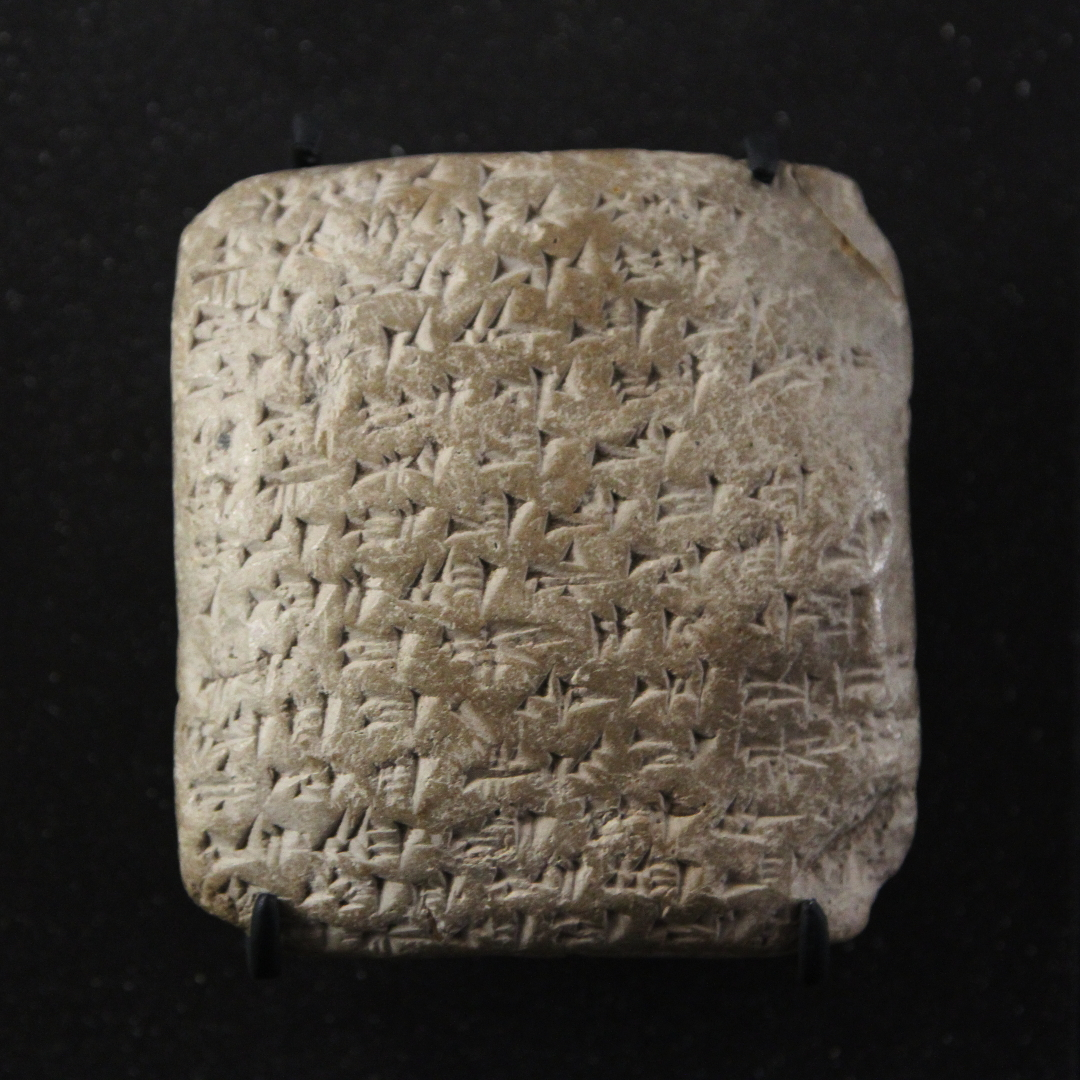 Amarna letter, Musée du Louvre (letter from Biridiya, written in Megiddo, cuneiform, addressed to the pharaoh) Louvre AO 7098